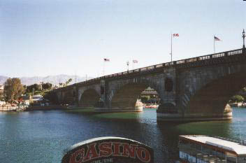 London Bridge, now in Lake Havasu City, Arizona